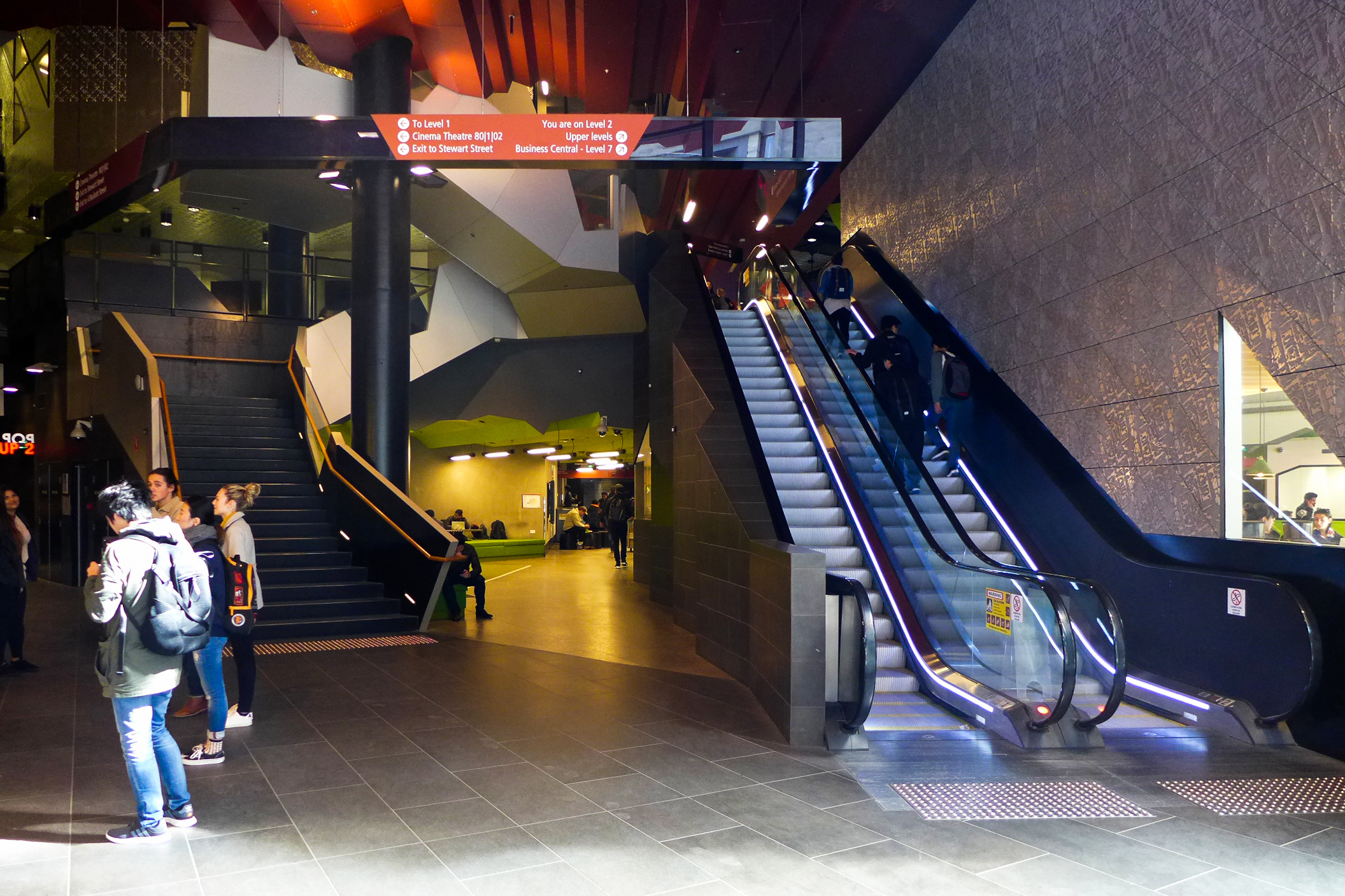 RMIT Swanston Academic Building